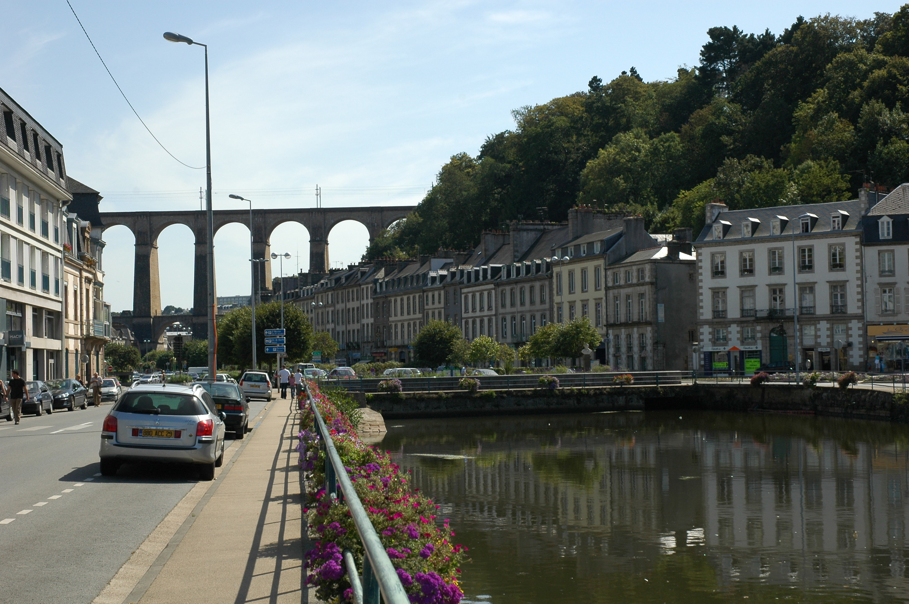 Morlaix, the port at the street Quai de Tréguier, Finistère, France